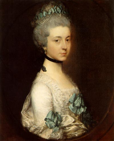 Lady Elizabeth was the only daughter of George Montagu, Duke of Montagu and 4th Earl of Cardigan. This portrait was painted in Bathat about the time of her marriage in 1767 to Henry, 3rd Duke of Buccleuch.